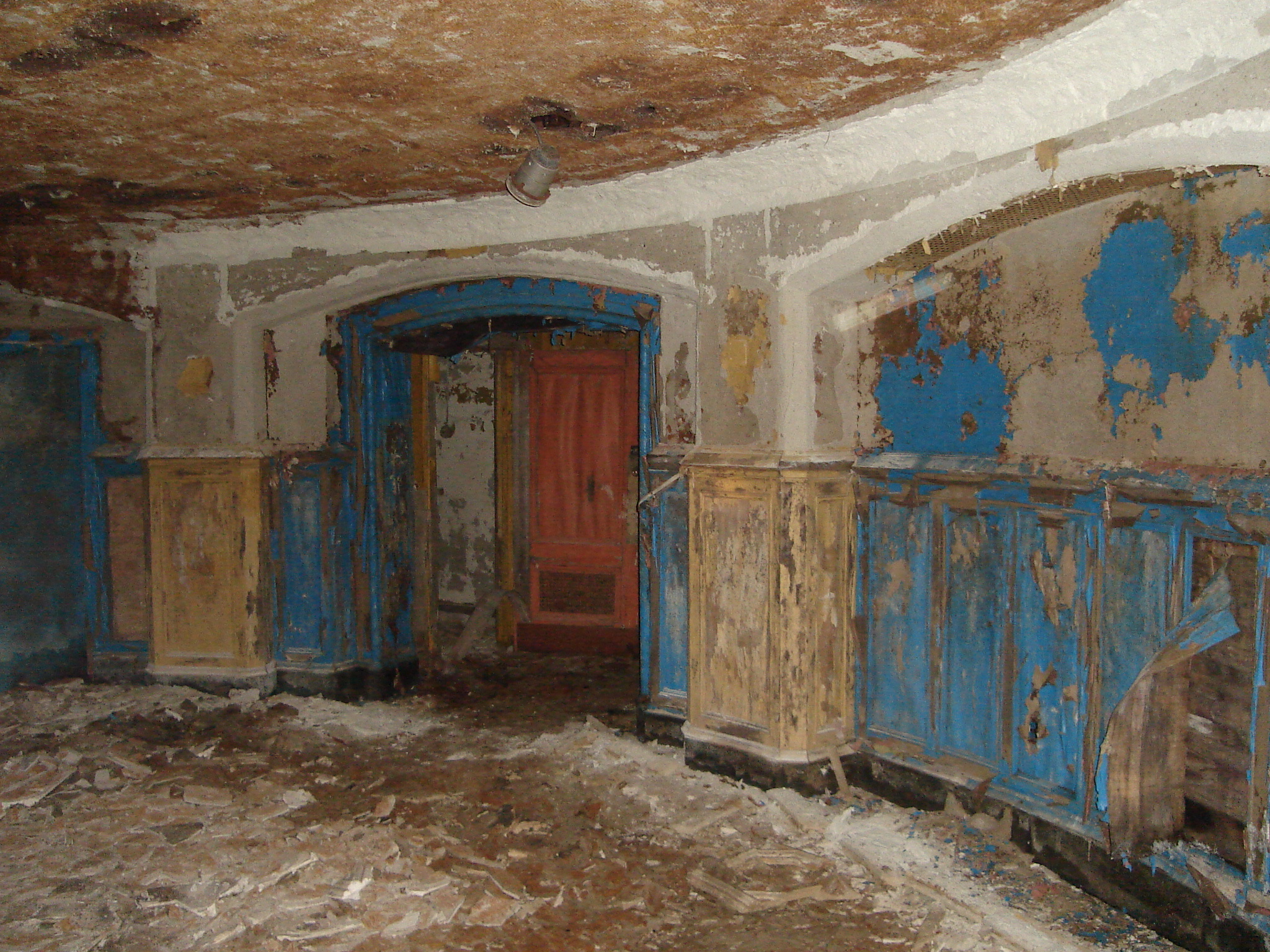 Kansas City Mainstreet Theater (formerly know as Empire Theater) basement lounge